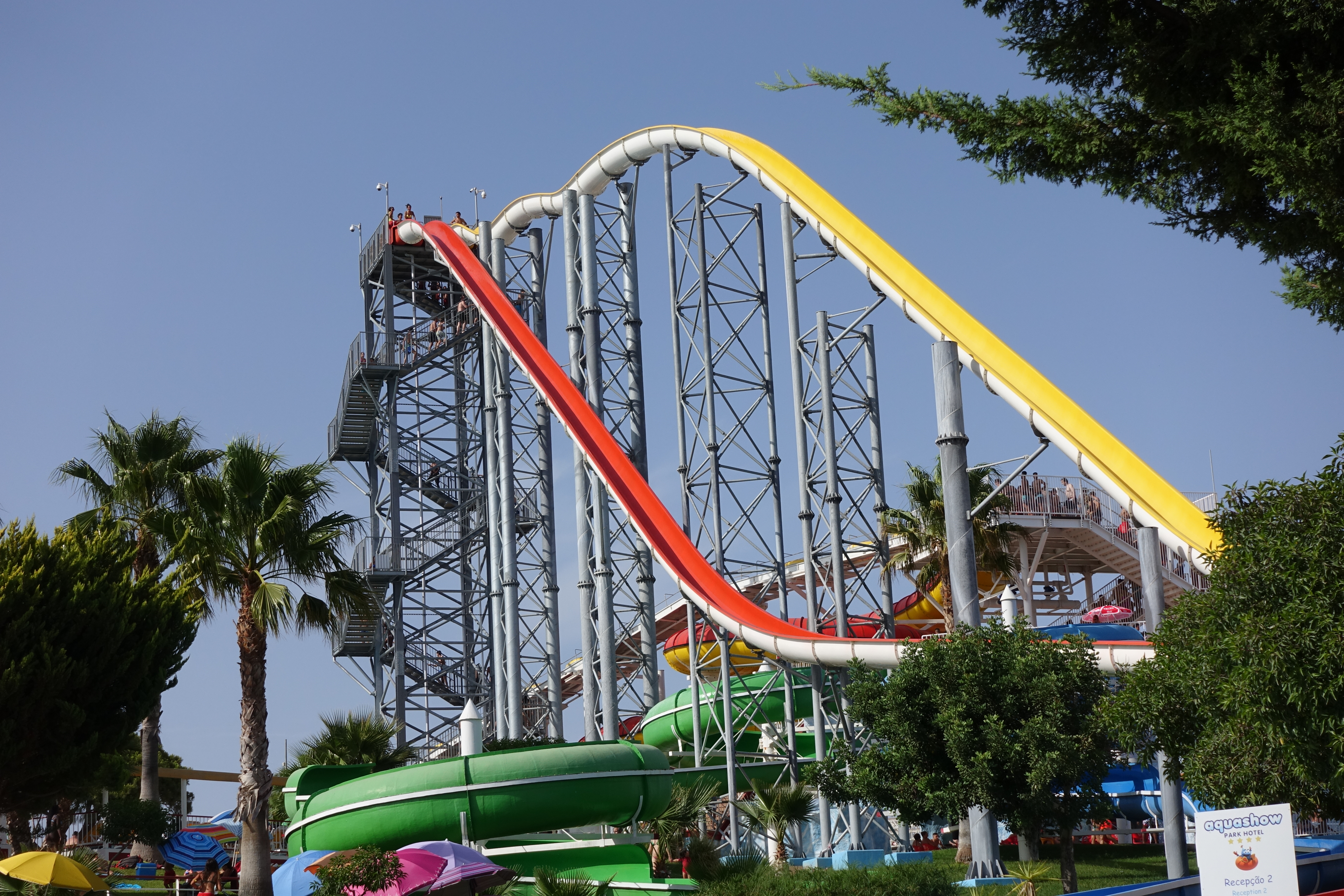 Aquashow, Loulé, Algarve.